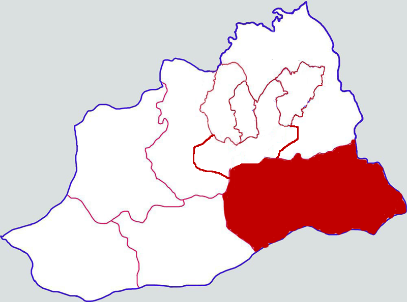 Location of Wuzhi county in Jiaozuo city, China